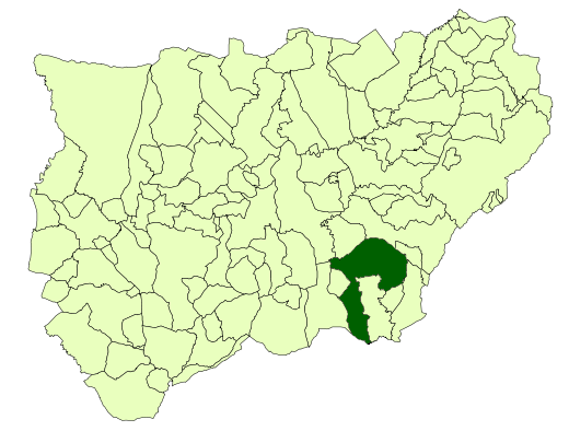 Situation of the municipality of Quesada (Jaén, Spain).